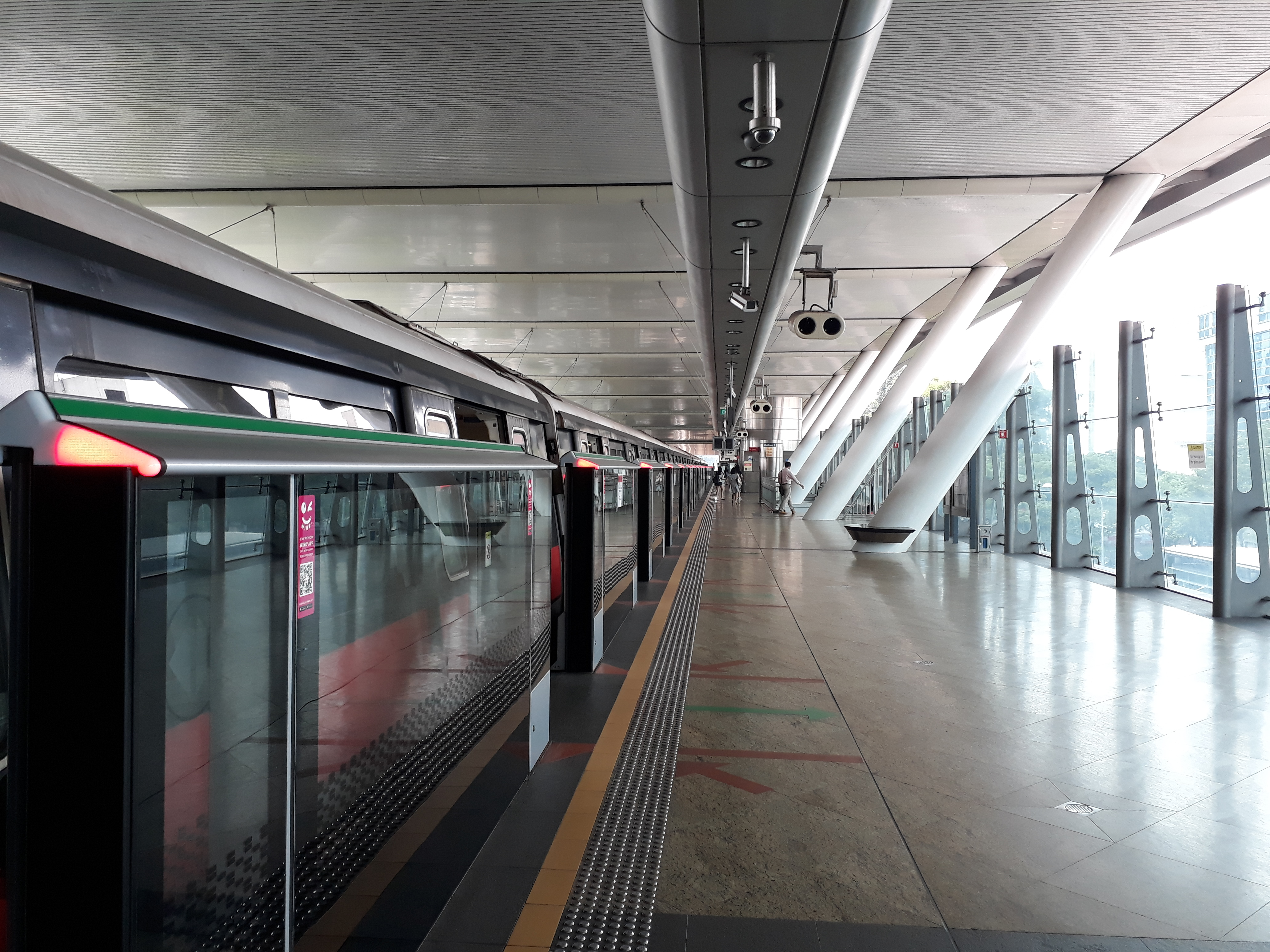 Platform B of Dover